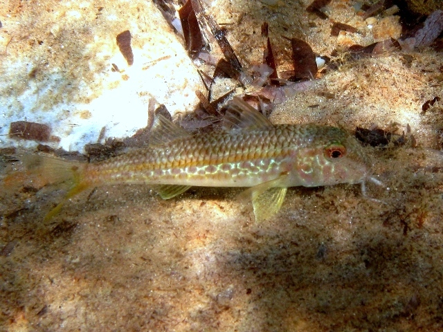 Mullus barbatus photographed in Antiparos, Greece.